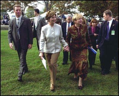 Laura Bush and Ludmila Putina, wife of Russian Federation President Vladimir Putin, stroll across the lawn of the Capitol visiting the tents of authors and story tellers at the Second Annual National Book Festival Saturday, October 12, 2002.